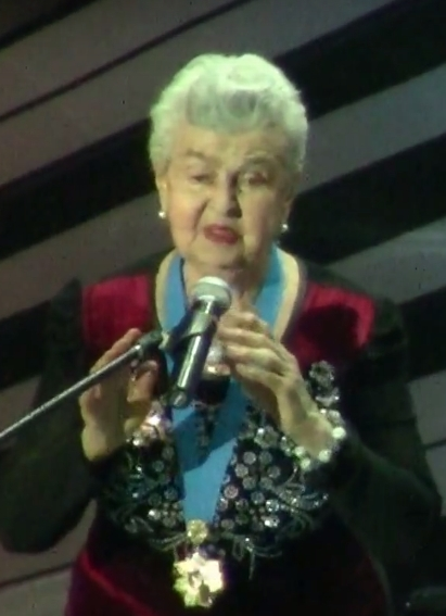 Lyudmila Alekseevna Lyadova, a Russian composer, pianist and singer